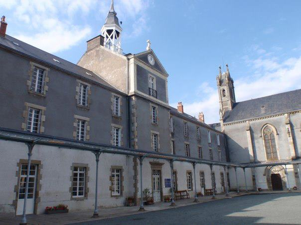 Schoolyard of Chavagnes International College, France.